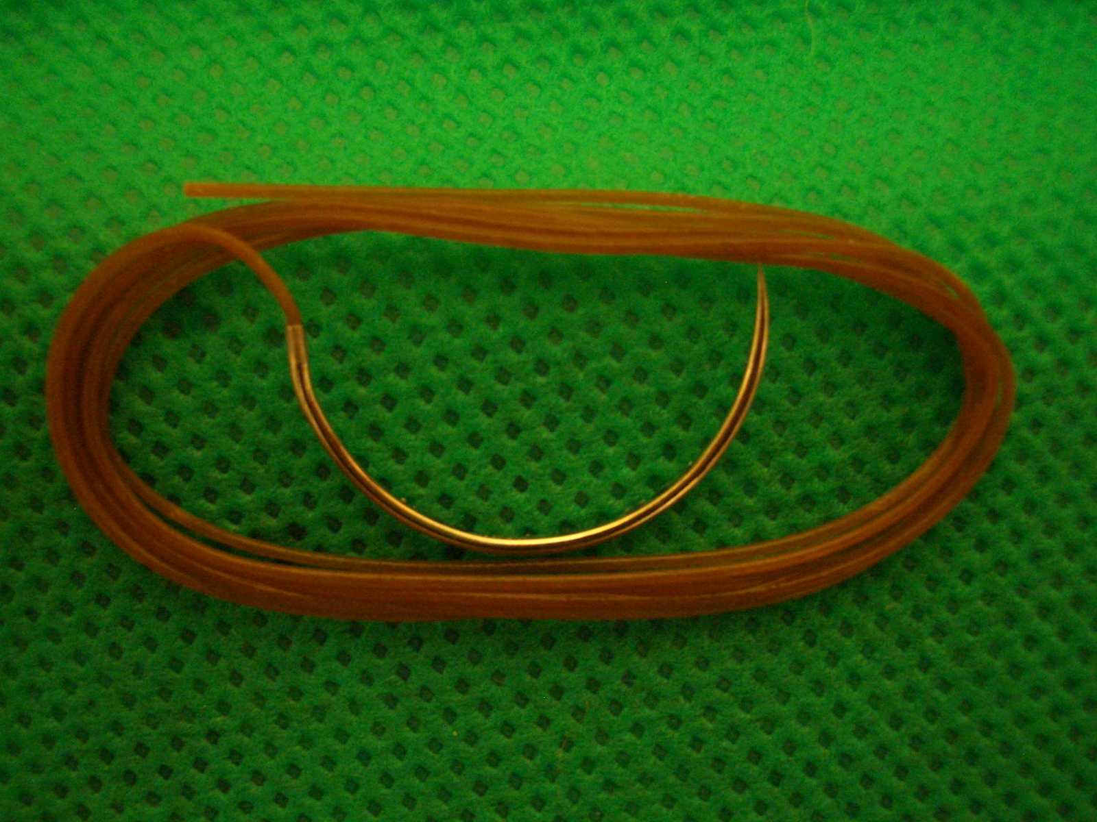 sterilized surgical suture